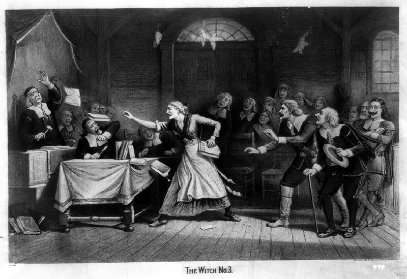 "The Witch, No. 3"